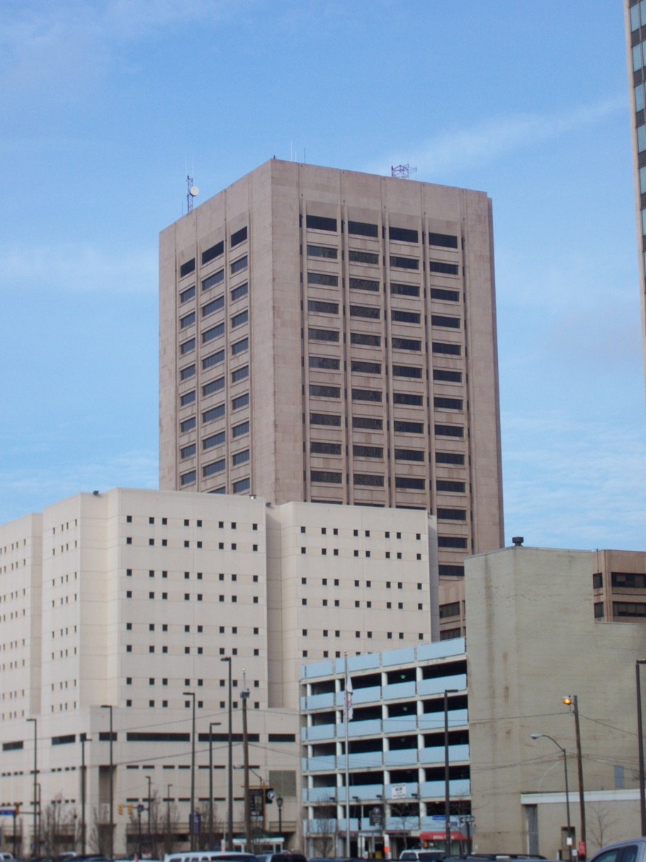 Cuyahoga County and Cleveland Municipal Courts Tower.